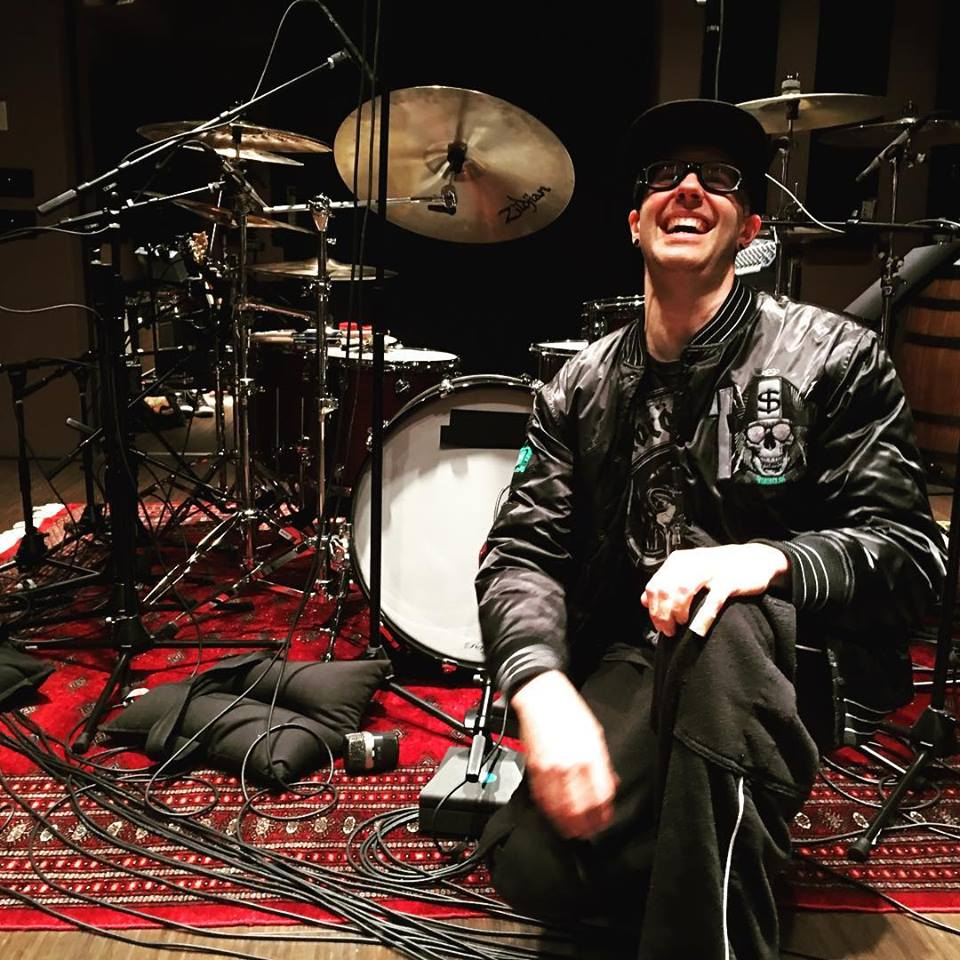 "Voodoo KungFu" tracking sessions.